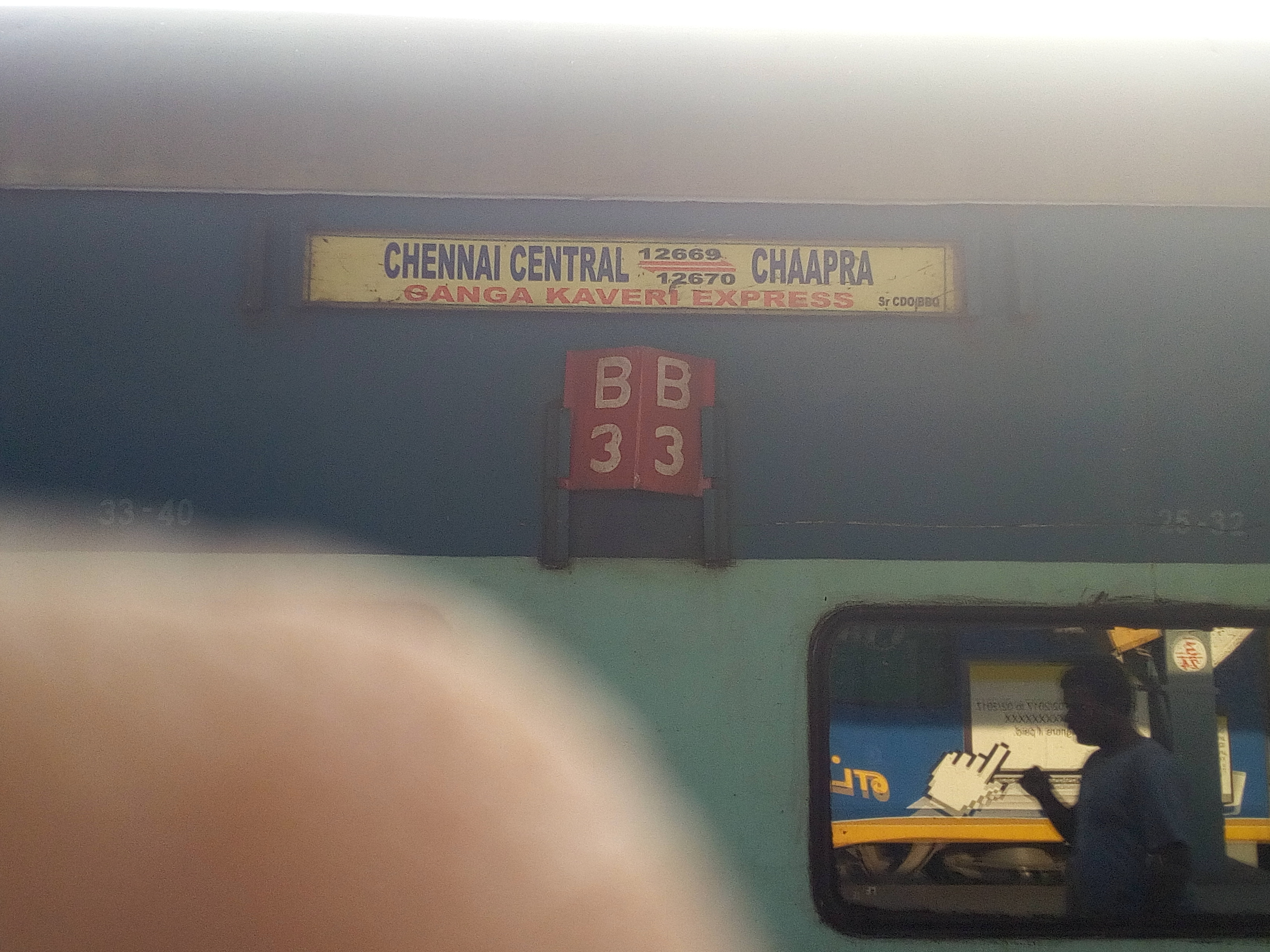 Chennai Central - Chaapra Ganga Kaveri Express B3 coach